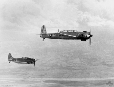 A captured Japanese Nakajima B6N2 Tenzan ("Heavenly Mountain", allied code name "Jill") shown in US markings in 1945 flying in company with a Douglas SBD Dauntless. After capture, it was restored by the Technical Air Intelligence Unit South-West Pacific and flown by allied pilots for assessment purposes.